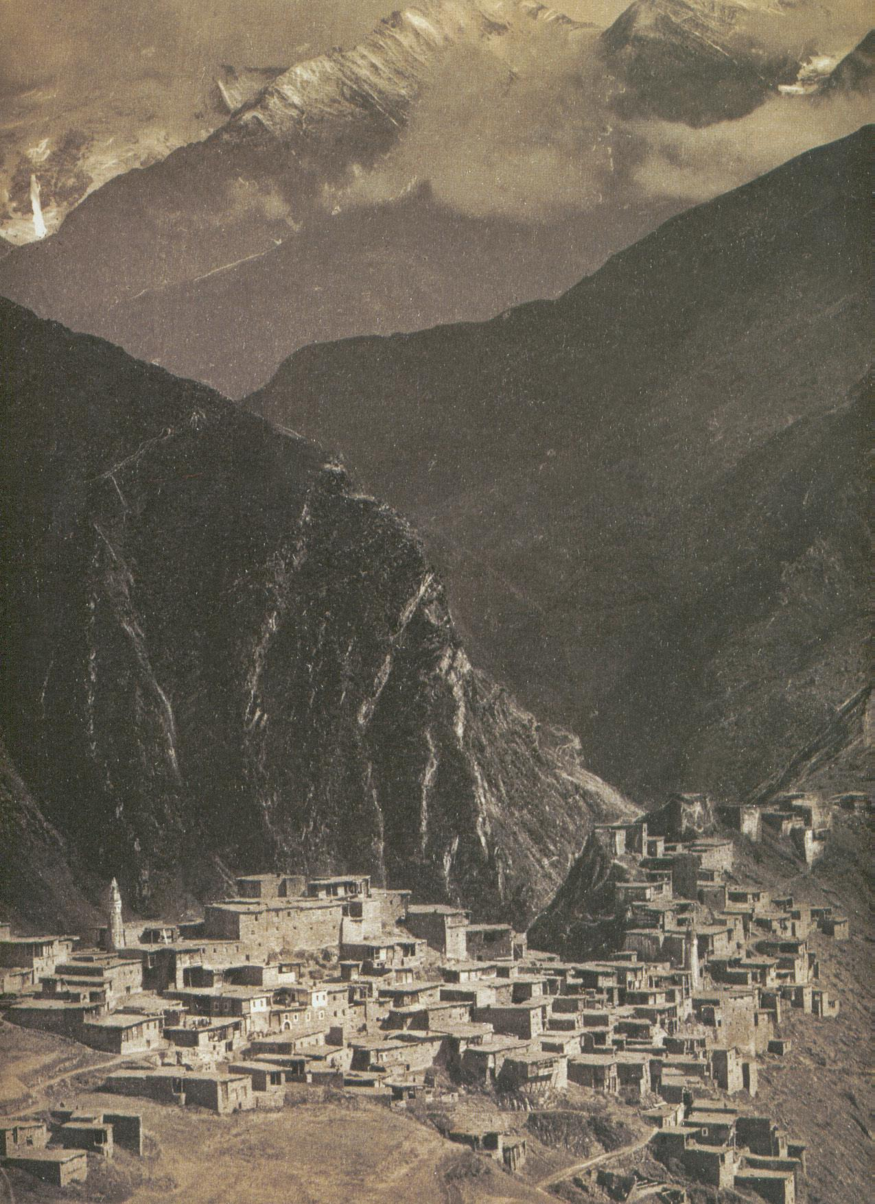 The village of Tindi, in Daghestan, in the late 1890s. This region of the southern Caucasus is home to a mixed population, the majority of whom are Muslims (mosques and their adjoining minarets can be seen to both the left and right of the village). The photograph was taken by M. de Déchy, who returned from the area with large collections of plants, fossils, and photographs.